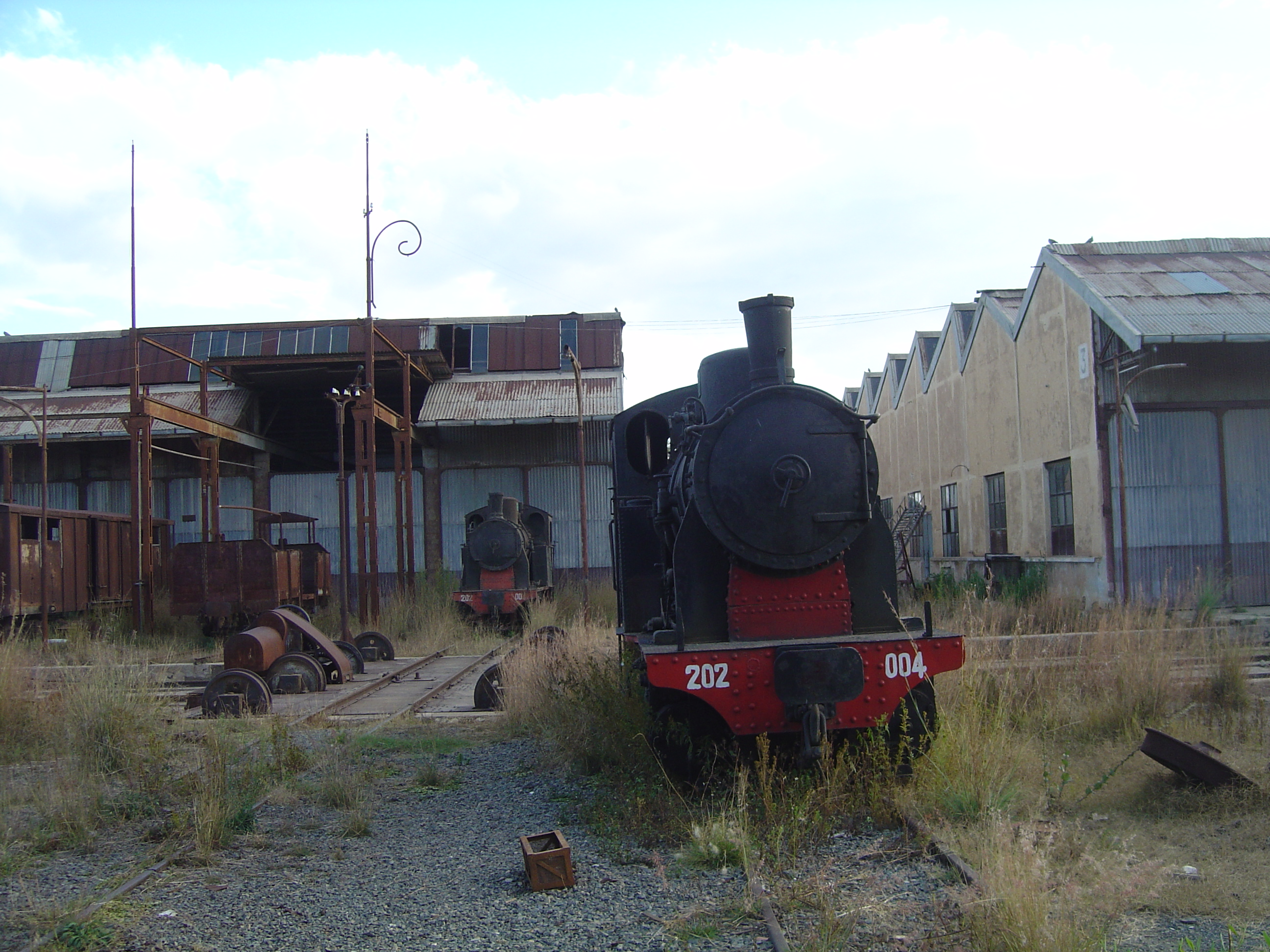 Eritrean Railway class 202 locomotives, in the locomotive works at Asmara